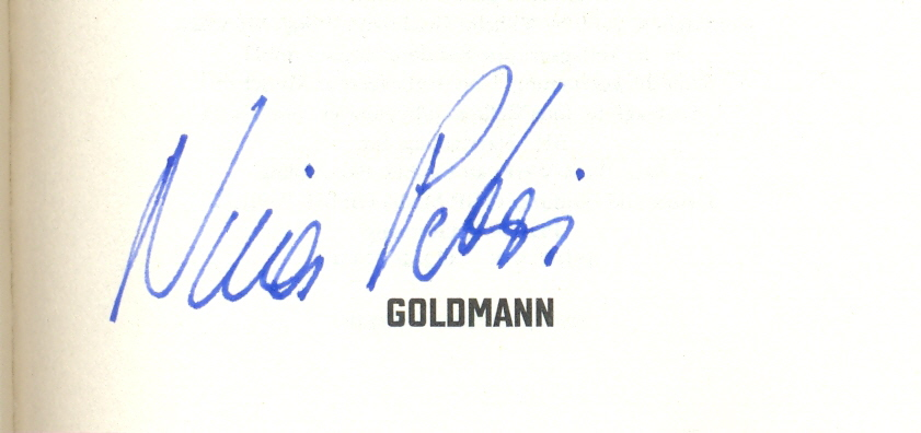 Autograph from Nina Petri, German actress